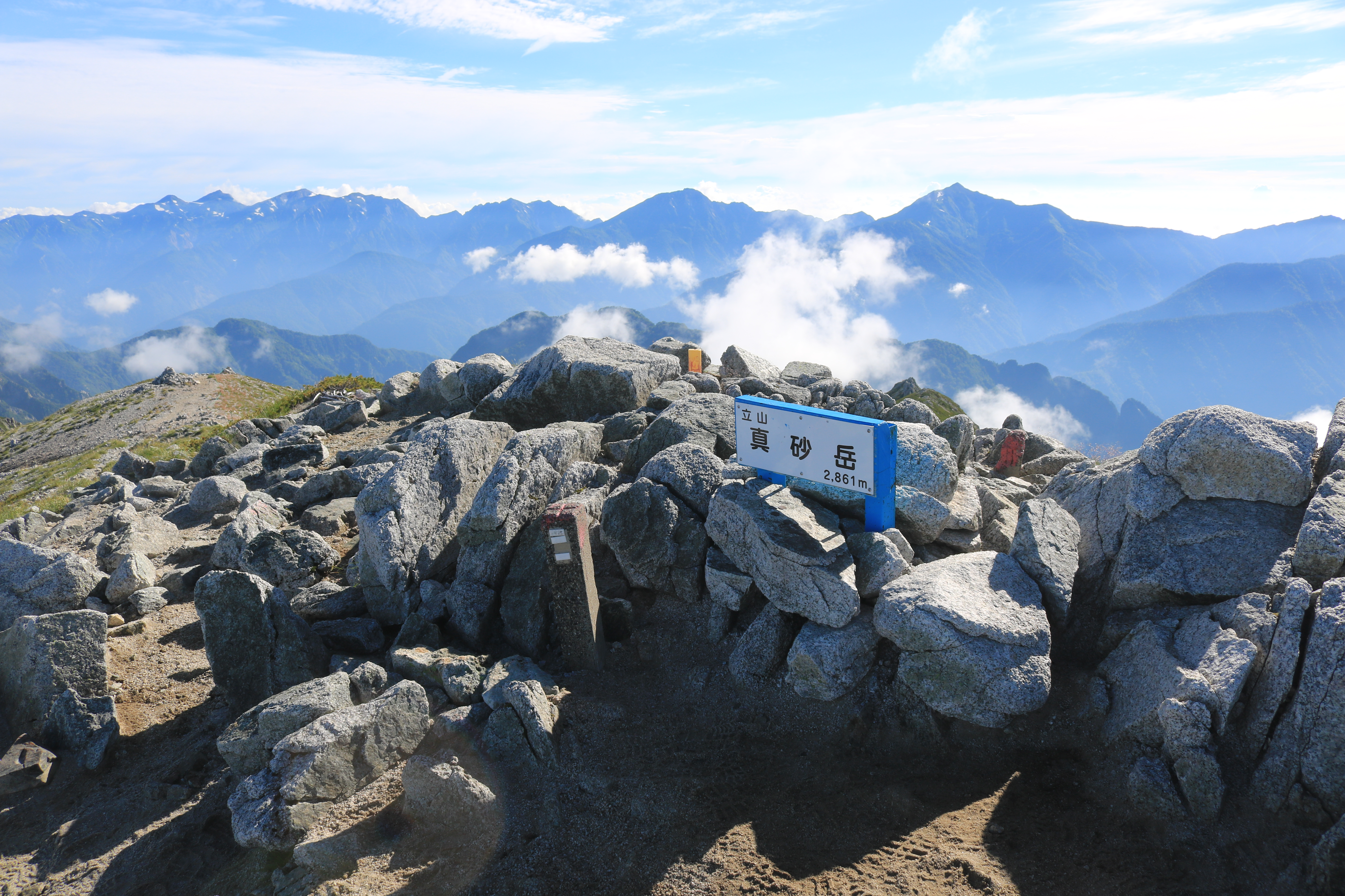 Peak of Mount Masago (Tateyama Mountains) and Ushirotateyama Mountains in Tateyama town, Toyama prefecture, Japan.